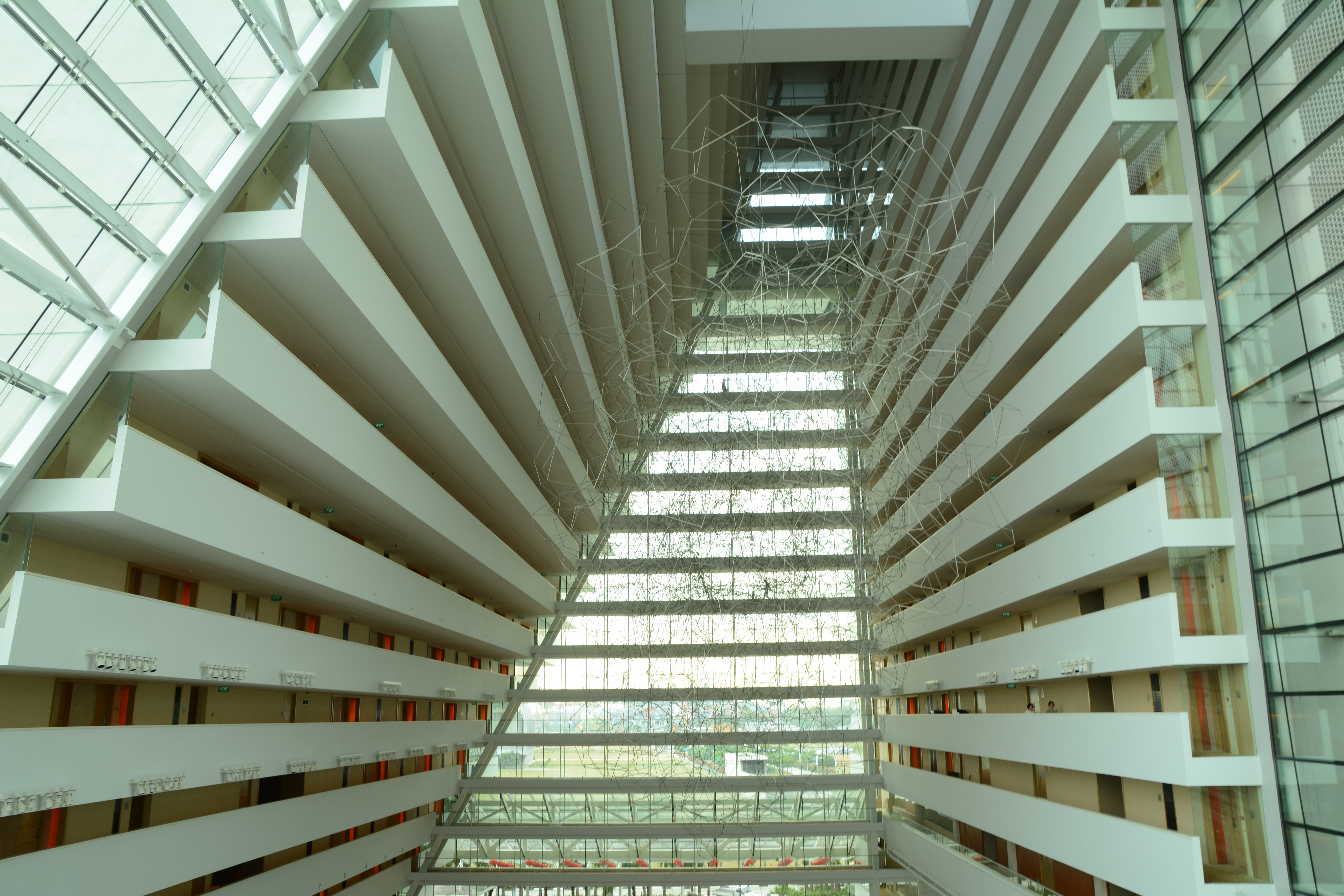 The interior of Marina Bay Sands Hotel, Singapore.